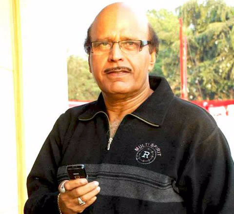 Avtar Gill at audio release of 'Do Dilon Ke Khel Mein'